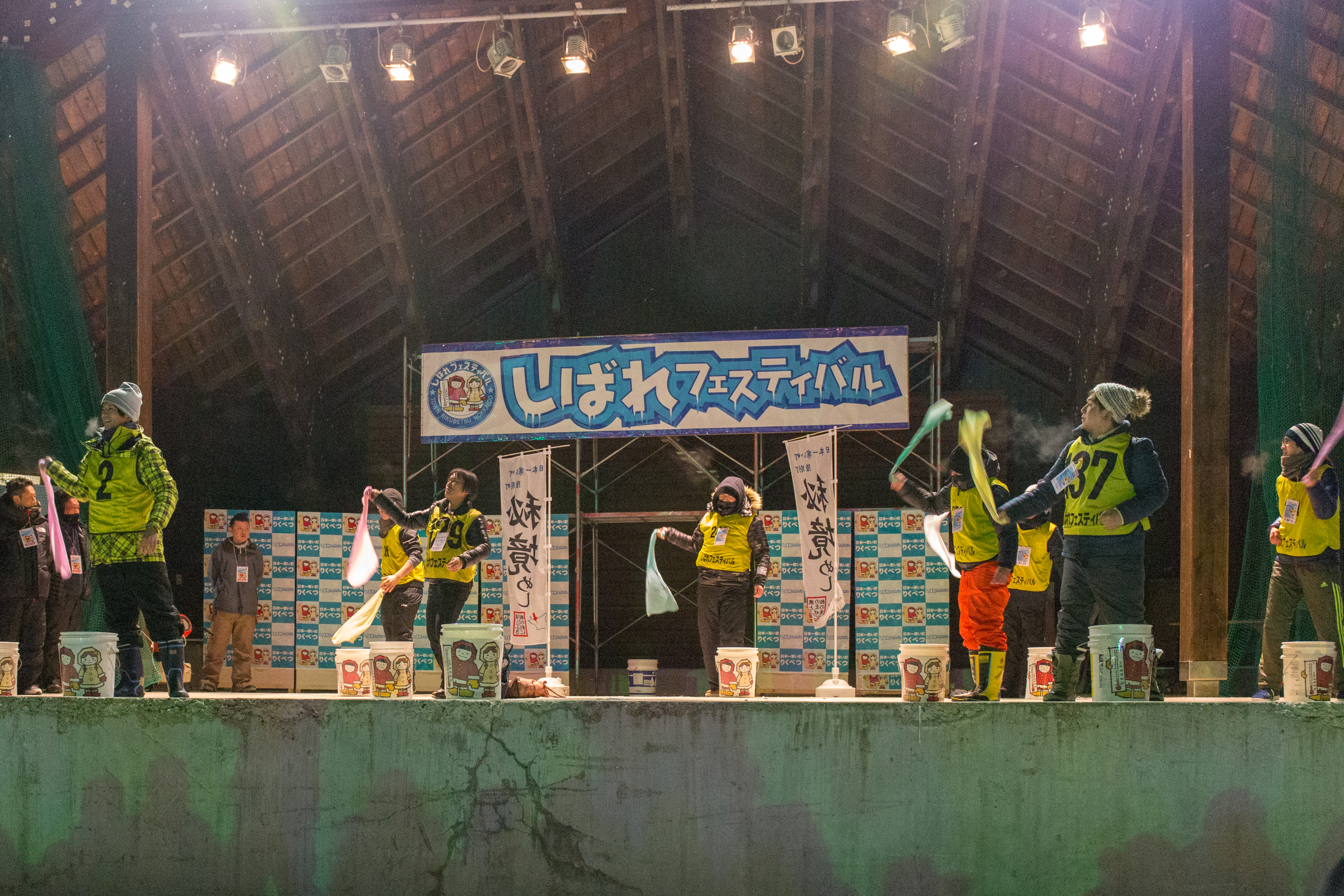 "World Spins Towel Championship" at the Shibare Festival 2018